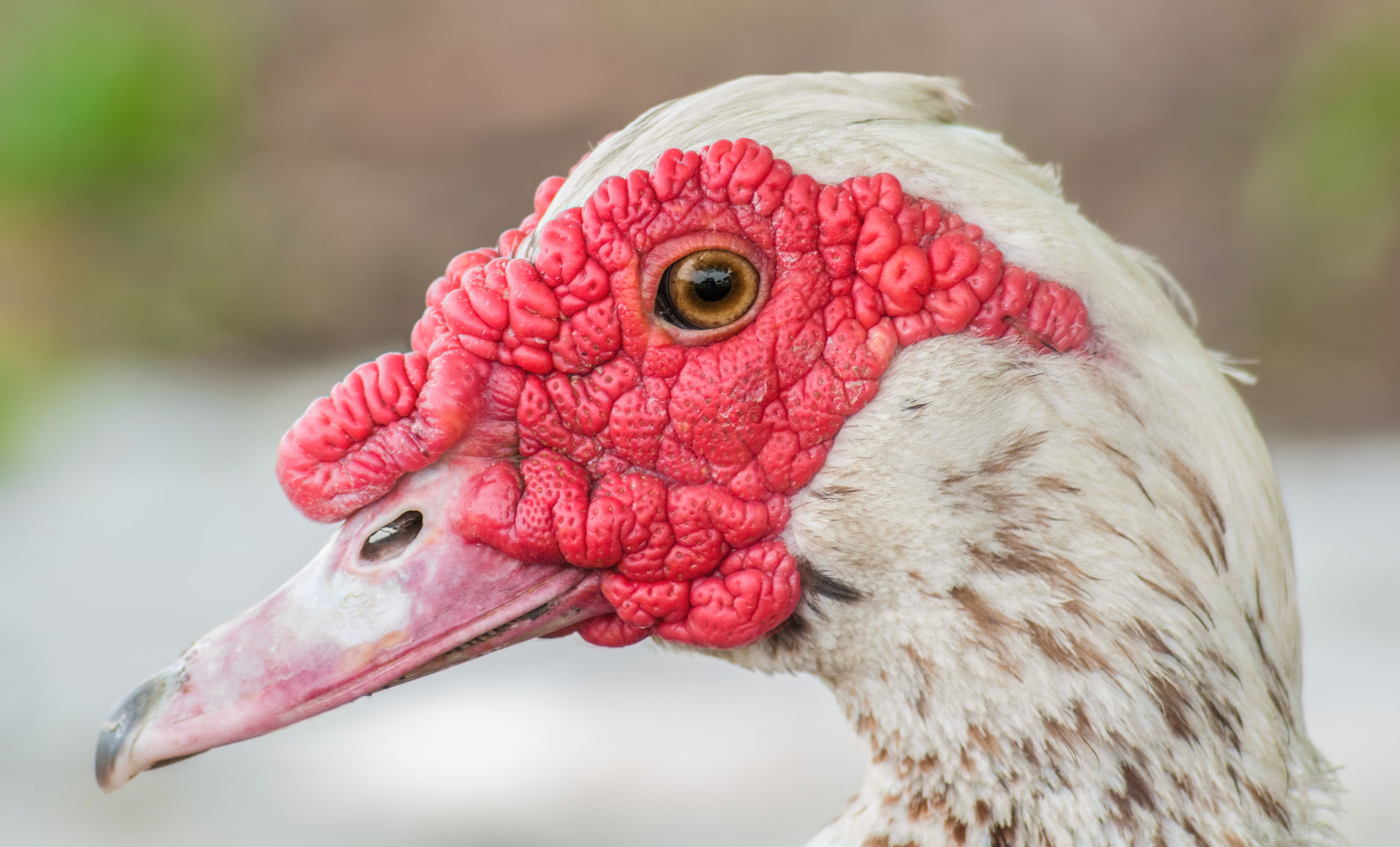 Cairina moschata momelanotus in Margarita Island, Venezuela